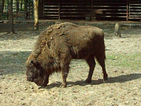 Hybrid of Bison bonasus bonasus and B. b. caucasicus at the New Poznań Zoo, Poland.